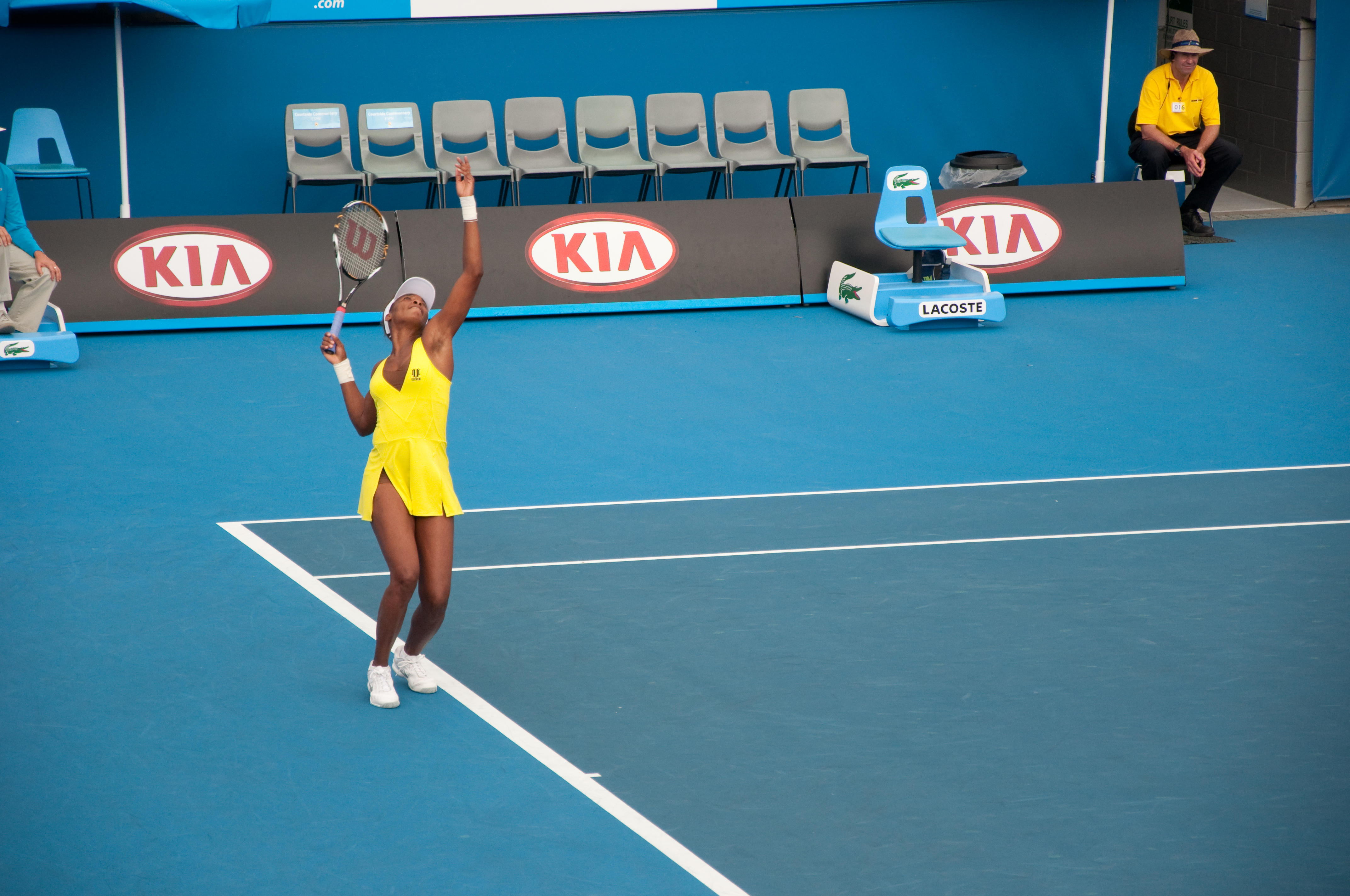 Melbourne Australian Open 2010 Venus Serve